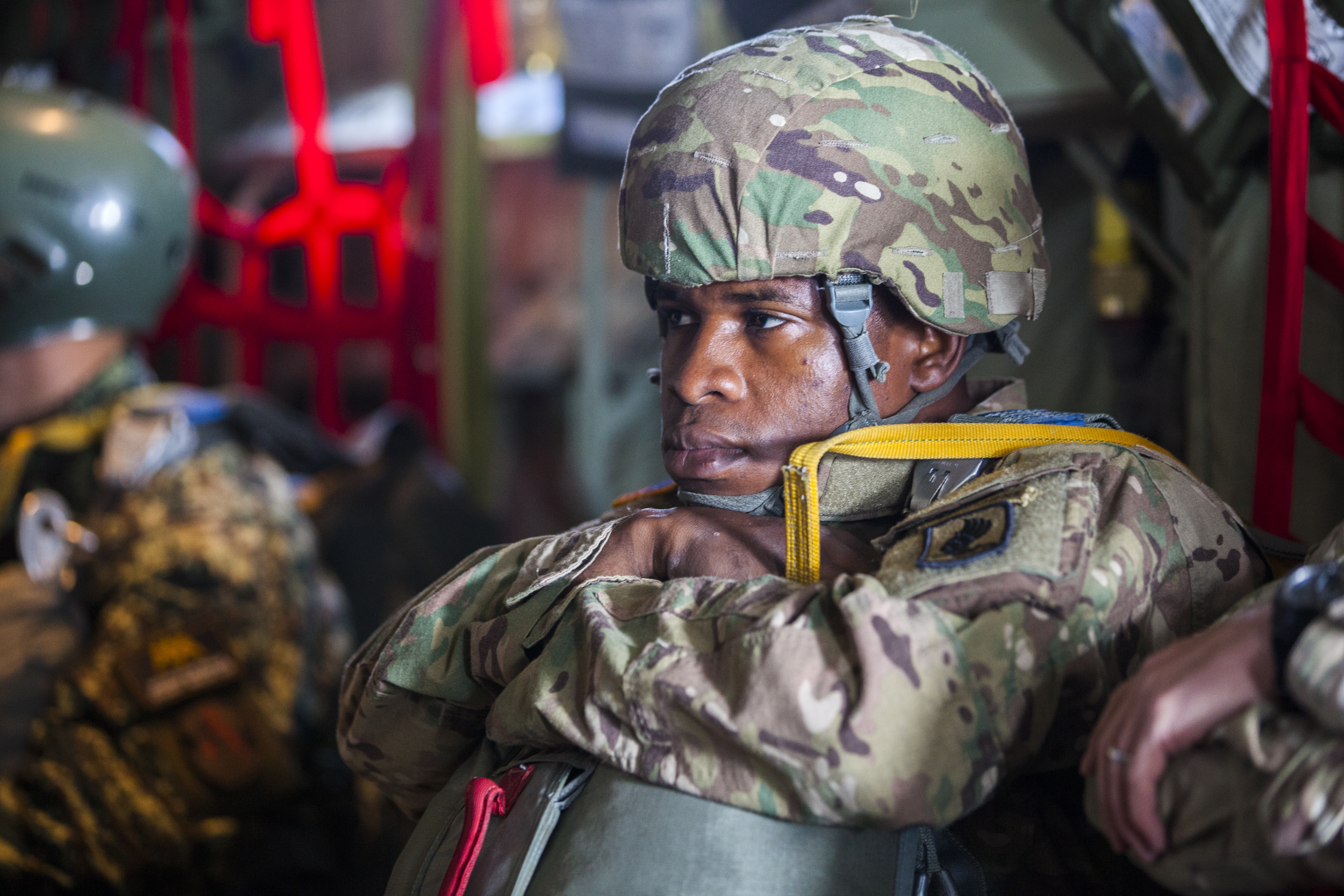 A U.S. Army paratrooper sits onboard a C-130 Hercules prior to an airborne operation during International Jump Week (IJW), Ramstein Air Base, Germany, July 8, 2015. The 435th Contingency Response Group hosts IJW annually, to build global partnerships, foster camaraderie between U.S. and International paratroopers, and to exchange current tactics, techniques and procedures pertaining to Airborne Operations (Static Line and Military Free Fall). (U.S. Army Photo By Staff Sgt. Justin P. Morelli / Released)